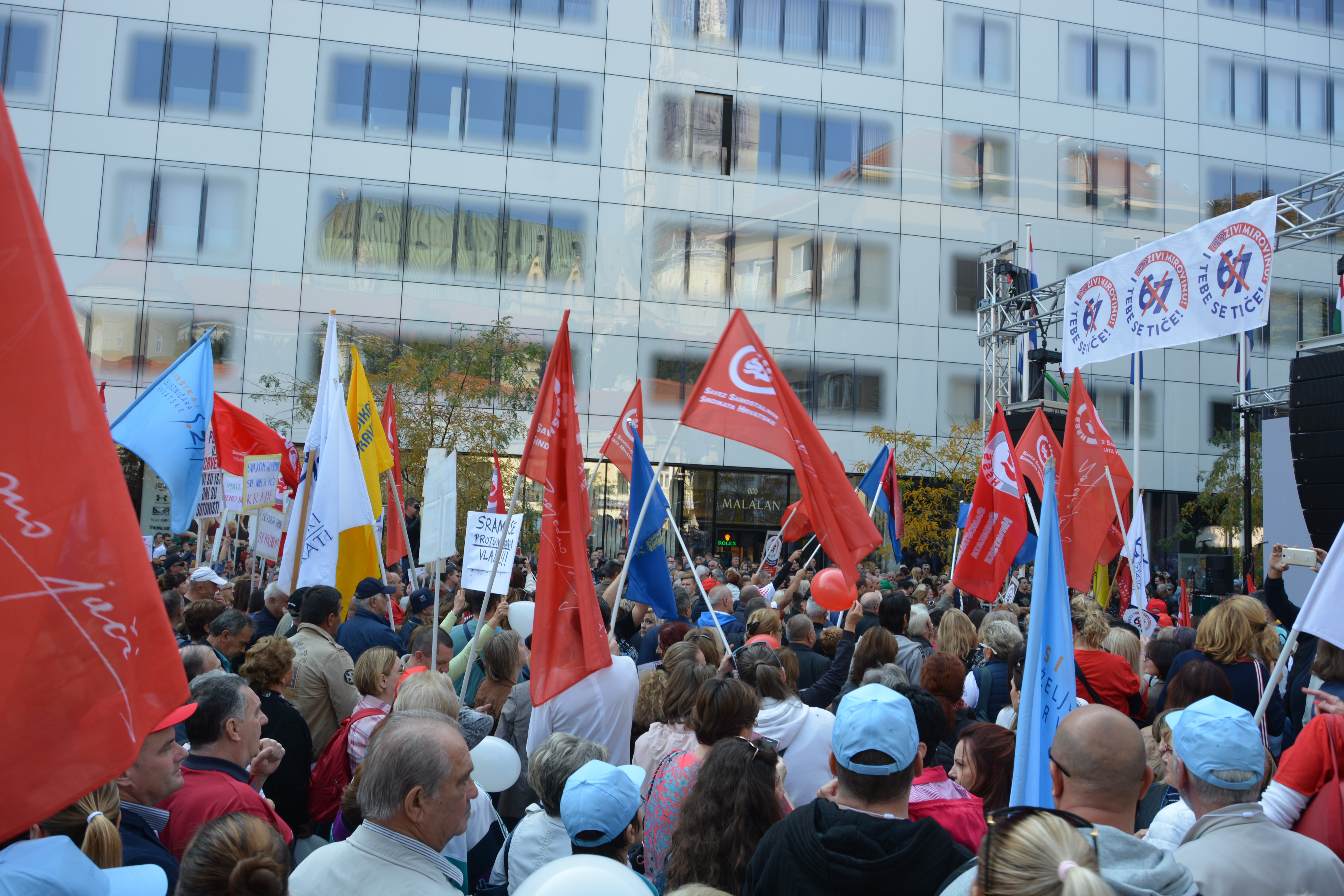 Protest against the pension reform in European Square, Zagreb.